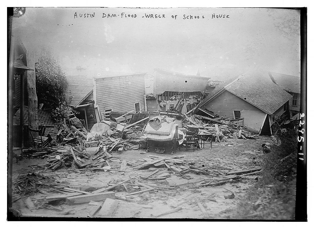 Austin/Dam Flood, wreck of School House. Austin Dam Flood, wreck of School House in 1911